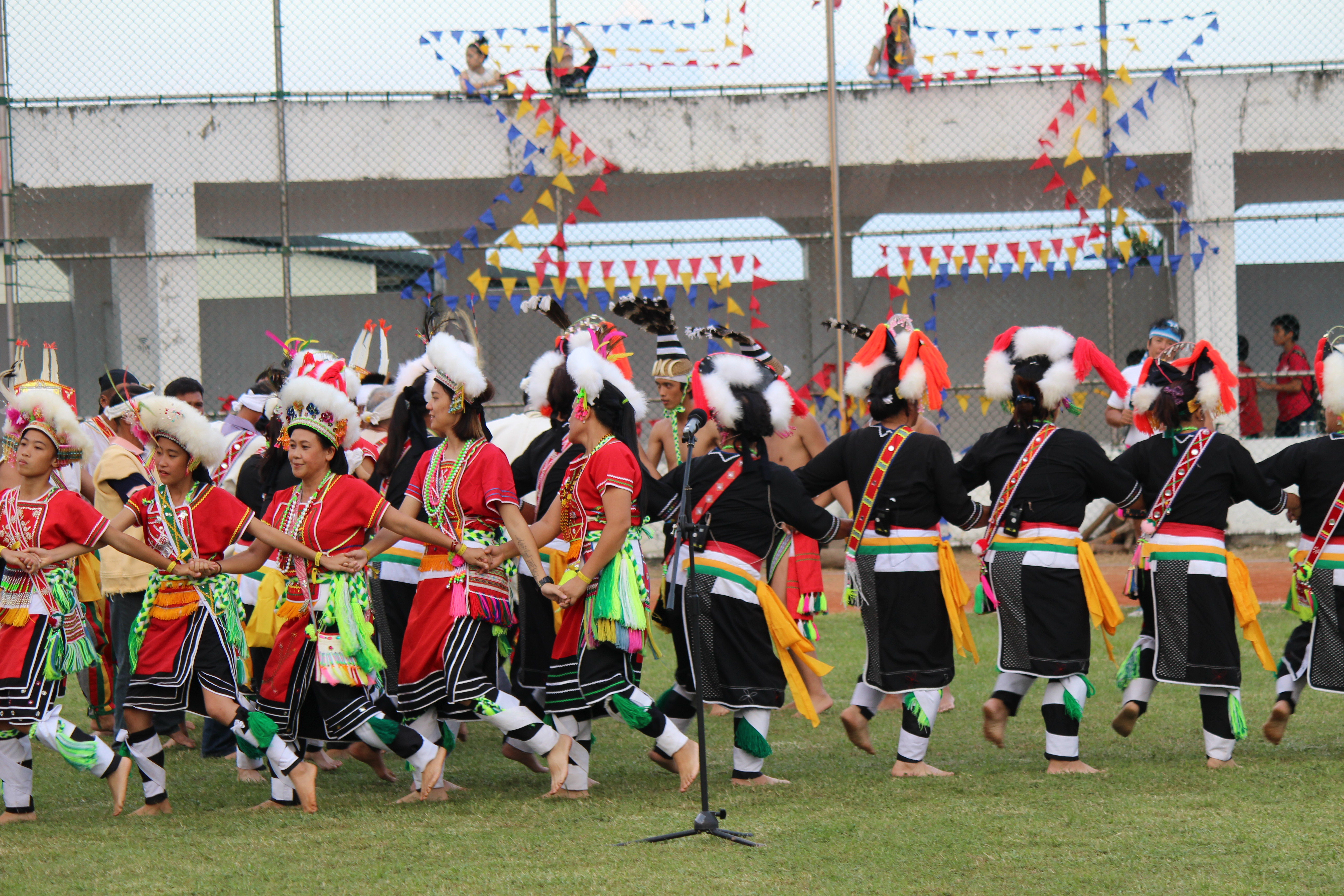 Taiwanese indigenous tribe members performing a group dance at the 2016 Amis Music Festival (阿米斯音樂節) in Dulan Village (都蘭), Taitung County, Taiwan